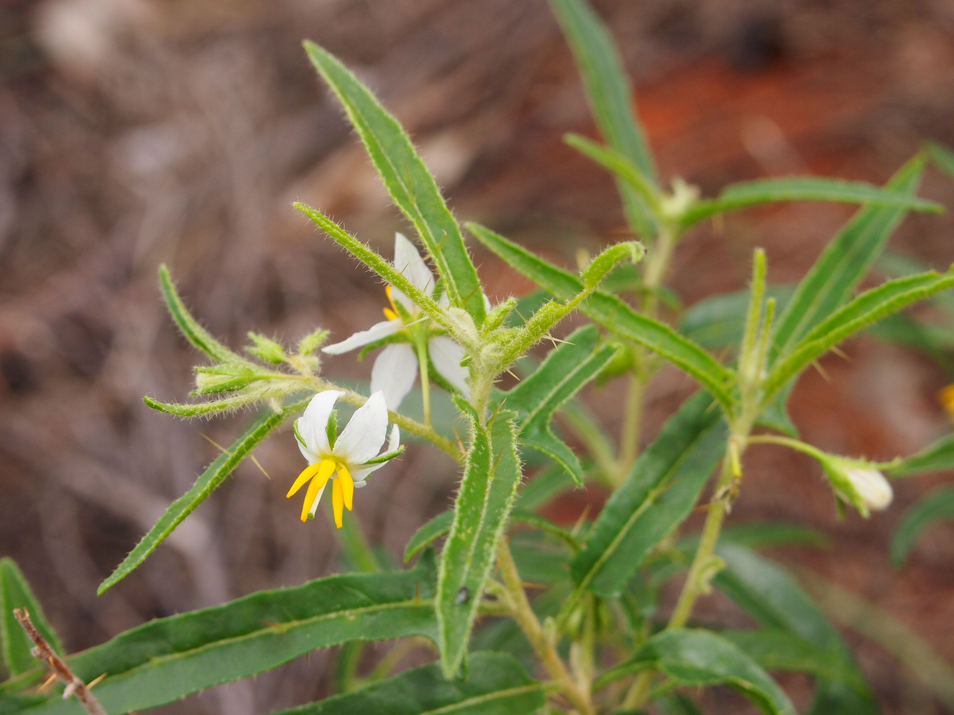 Solanum chenopodinum flower